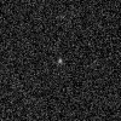 Single-exposure W3 band (12 μm wavelength range) image of Jupiter's moon Leda by the Wide-Field Infrared Survey Explorer (WISE) on 21 June 2010 22:46:36 UT. This image was processed from dataset 05725b154-w3 in archival WISE data provided by the IRSA.